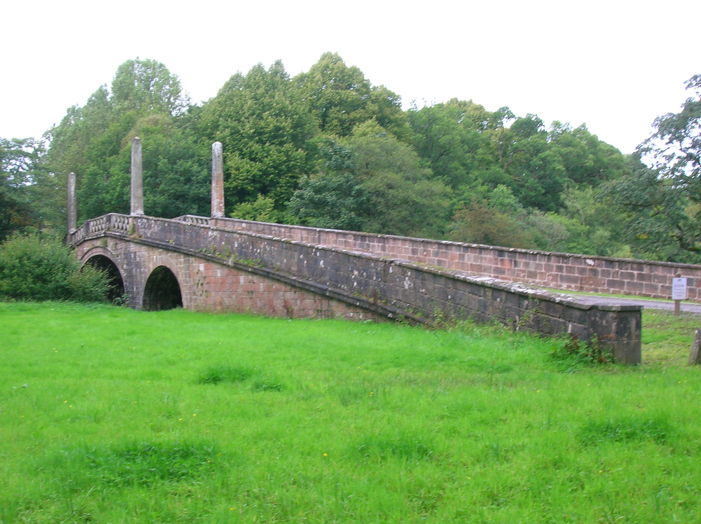 Avenue Bridge over the Lugar Water at Dumfries House, East Ayrshire, Scotland.